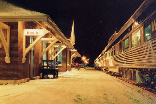 picture of train coming into the Via Rail station in Mont-Joli, Québec